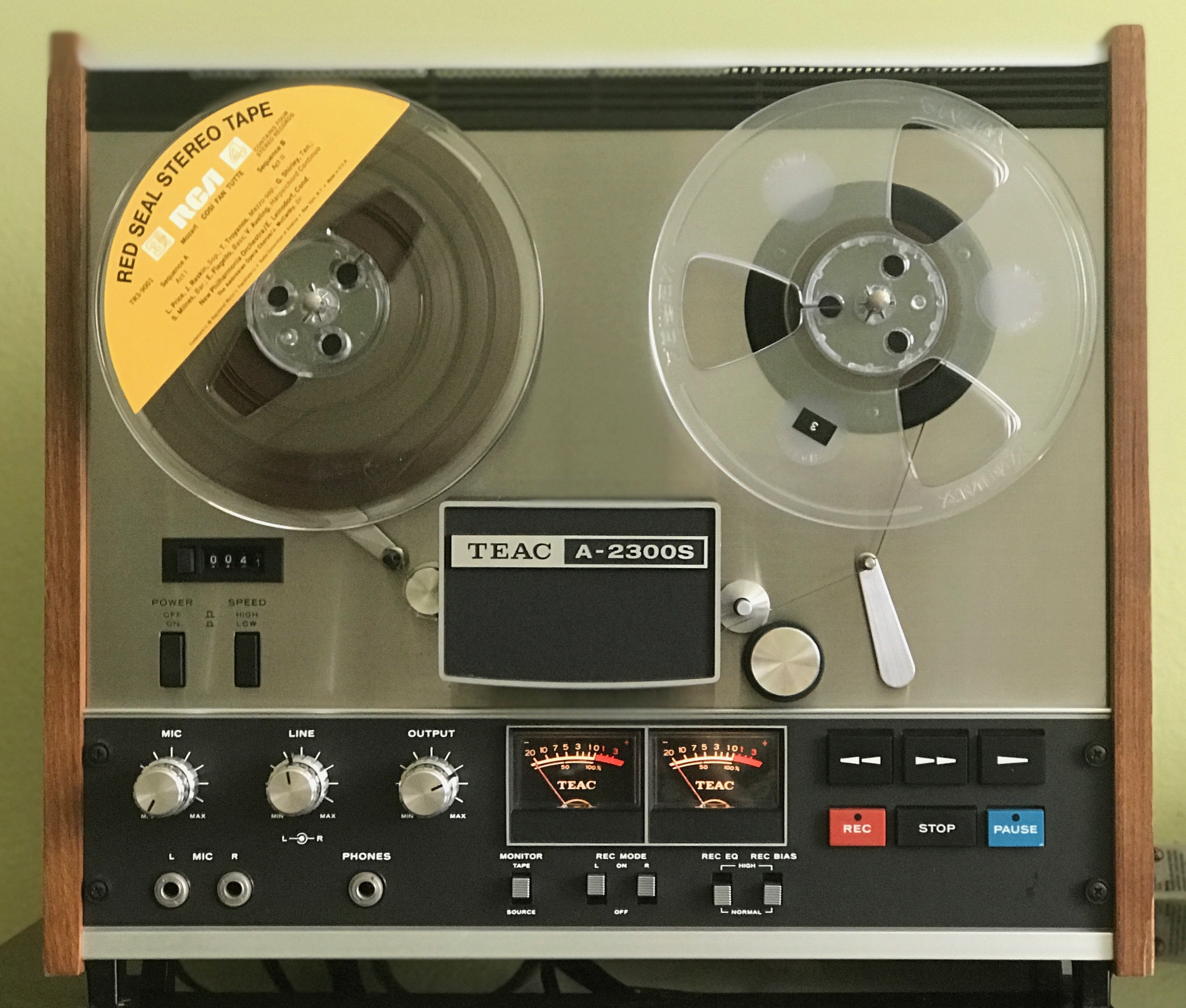 TEAC A-2300S reel-to-reel multi track recorder